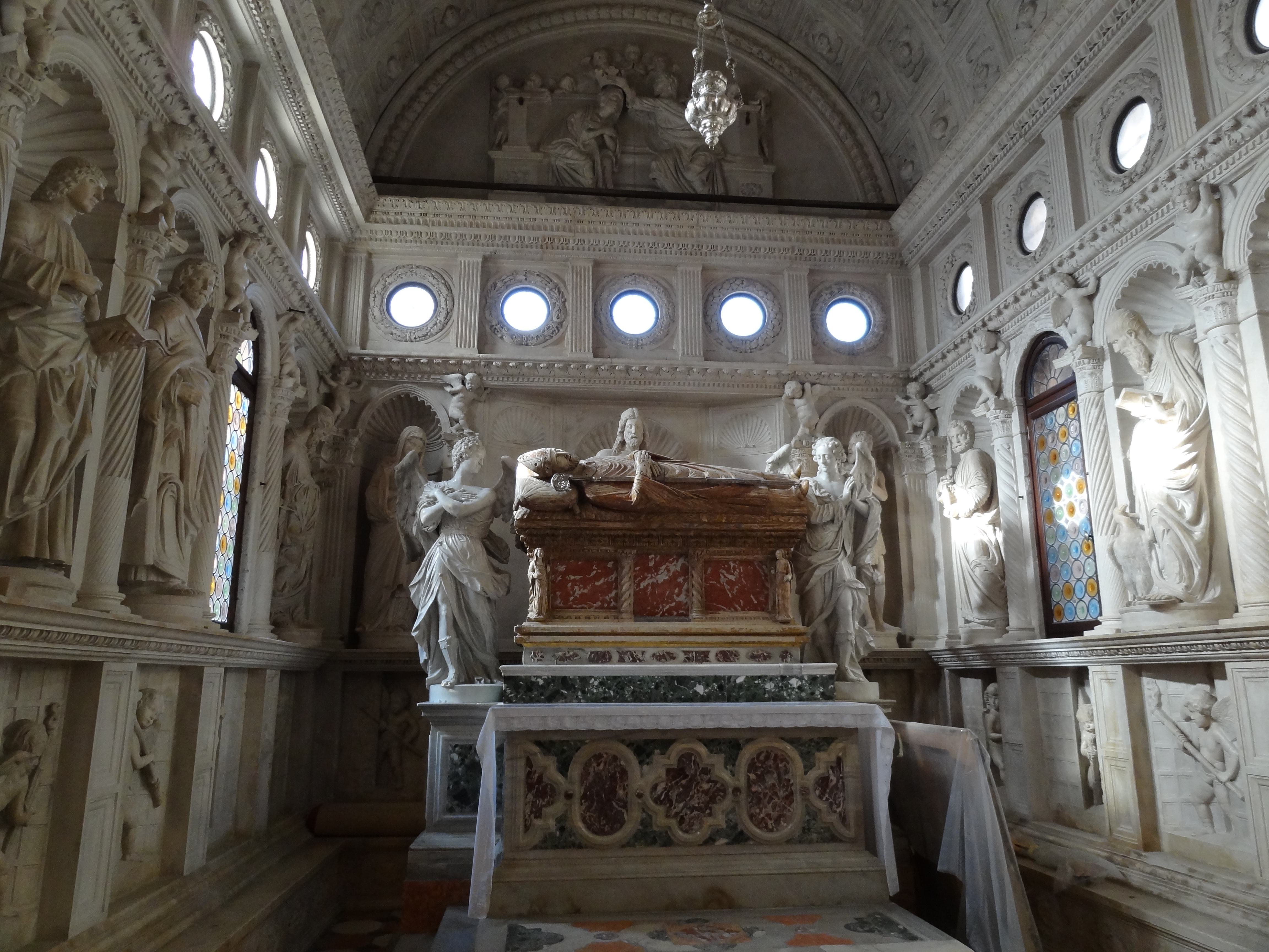 Chapel of Giovanni Orsini, Trogir, Croatia